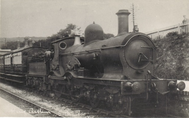 Great Western Railway 4-4-0 locomotive 3258 King Arthur with an eastbound train at Brent in Devon.